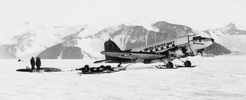 The U.S. Navy Dogulas R4D-5L Que Sera Sera (BuNo 12418, c/n 9358, ex USAAF 42-23496) idles next to its refueling tanks at Beardmore-Scott Auxiliary Air Base, Antarctica, in 1956. This aircraft was the first aircraft to land on the South Pole on 31 October 1956. Crew: pilot LCdr. Conrad S. Shinn; copilot Capt. William. M. Hawkes; navigator Lt. John Swadener; crew chief AD2 John P. Strider; radioman AT2 William Cumbie; Rear Adm. George J. Dufek, Commander Task Force 43 and Commander Naval Support Forces, Antarctica; and Capt. Douglas L. L. Cordiner, Commanding Officer of Antarctic Development Squadron 6 (VX-6). These were the first people to stand at the South Pole since January 1912. The aircraft is today on display at the National Museum of Naval Aviation, at Pensacola, Florida (USA).